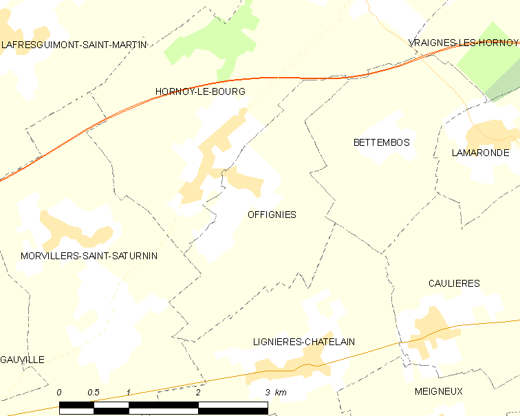 Map of French municipality Offignies